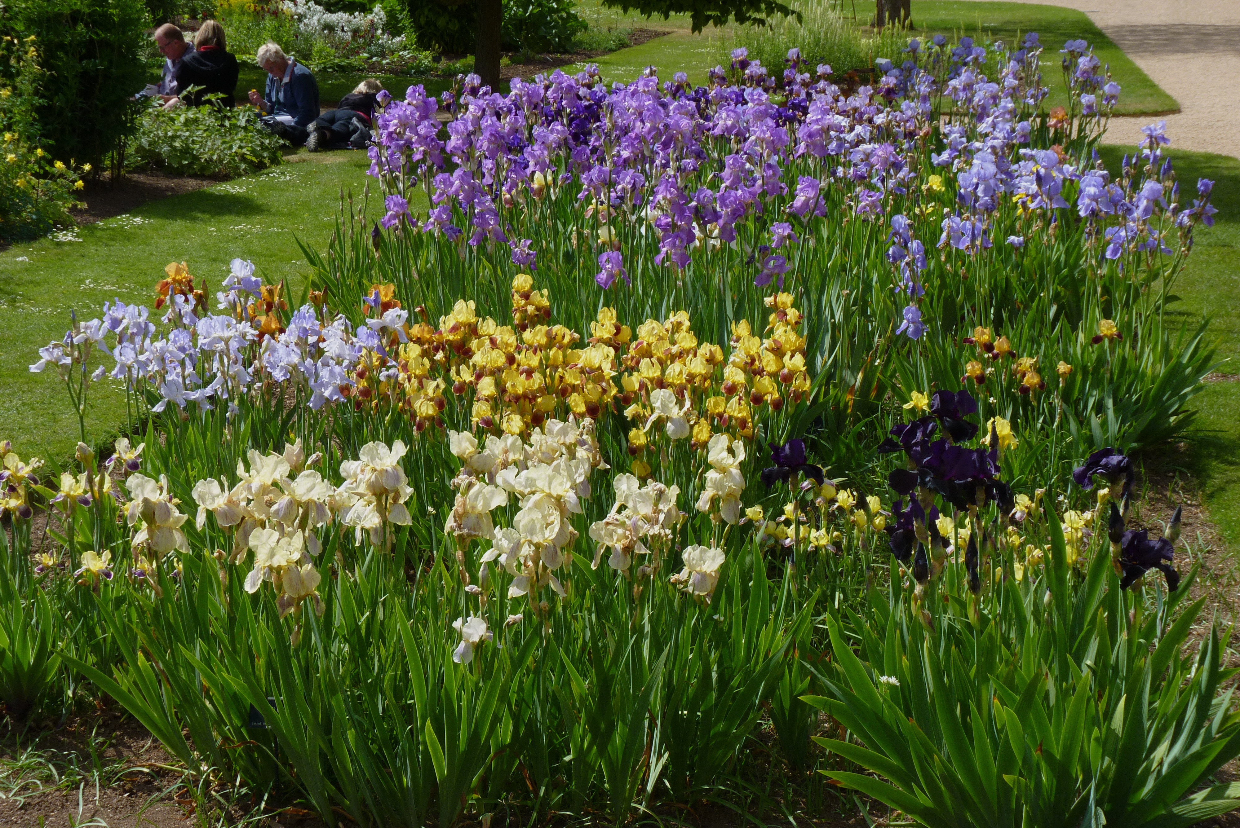 Oxford Botanic Garden